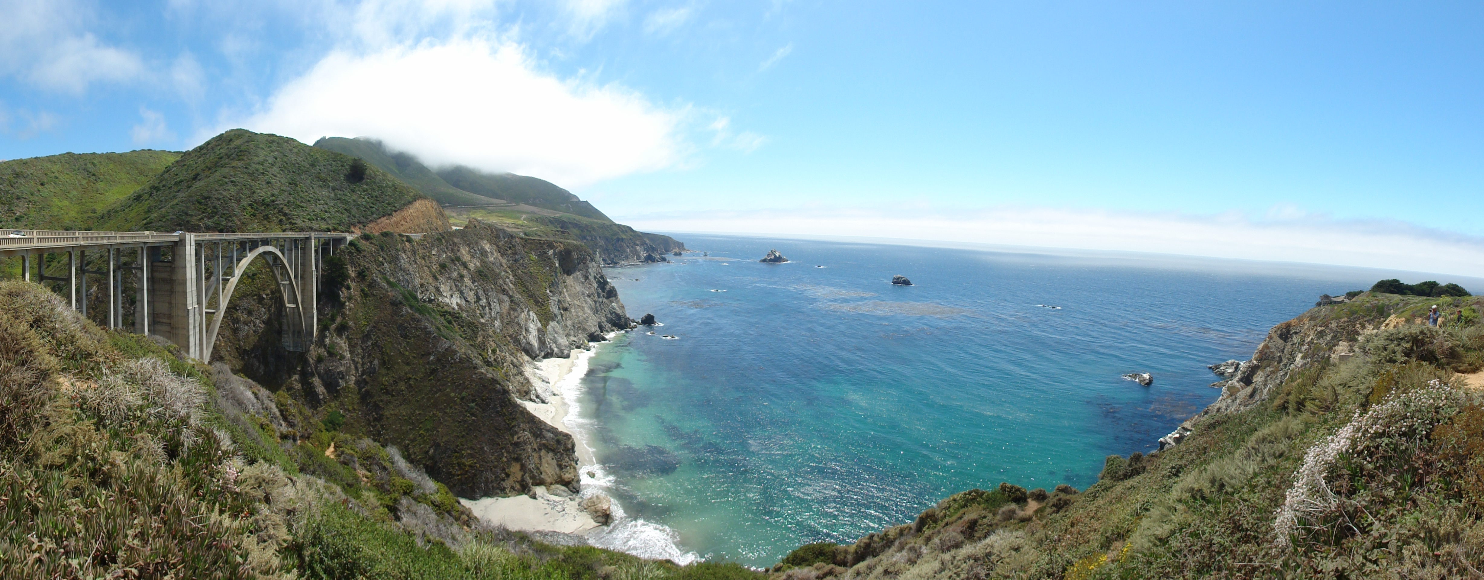 Bixby Creek Bridge